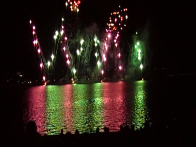 Category:Images of Canberra Photo taken by myself at Skyfire 18 on the 4/3/06. Taken using a JVC Everio 20GB video camera.